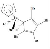 Fe H abcd